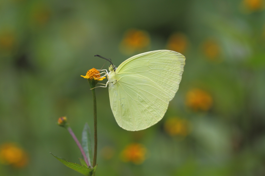 Close wing position of Gandaca harina Horsfield, 1829 – Tree Yellow